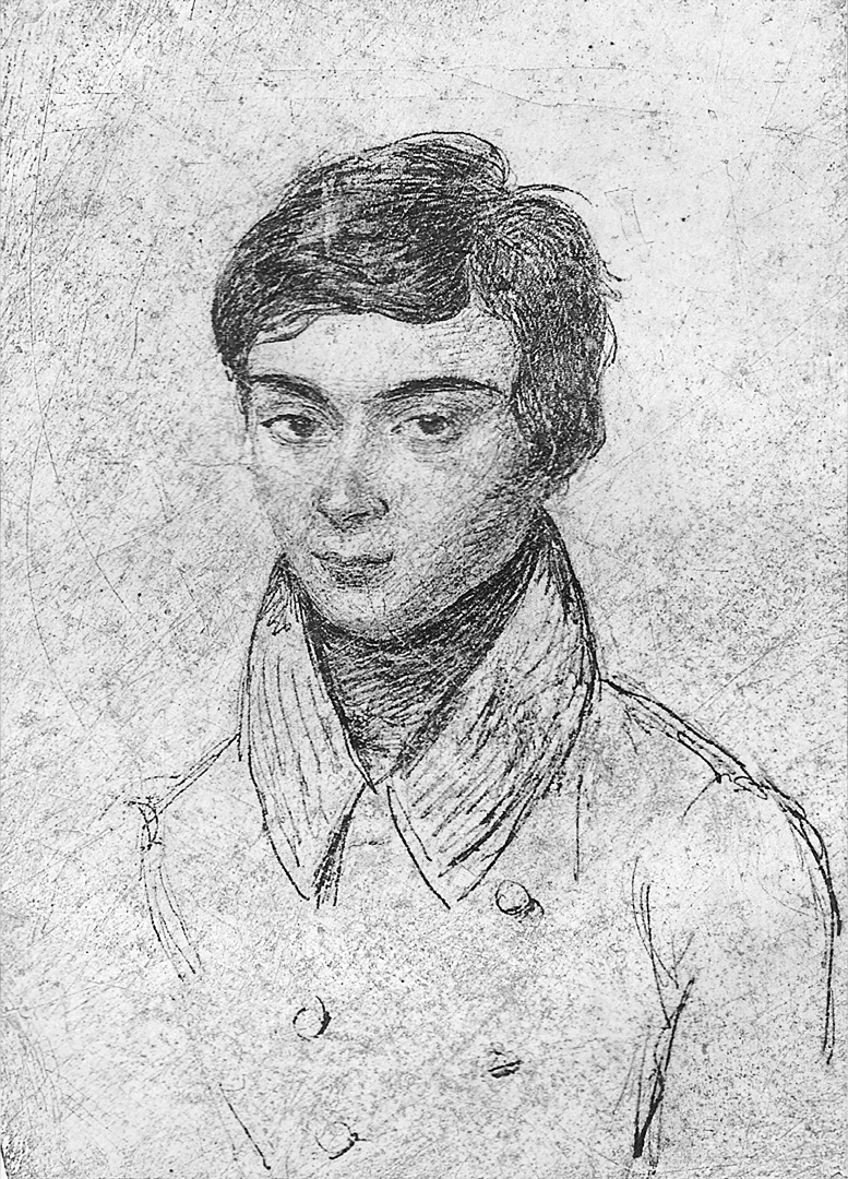 Portrait of Évariste Galois, young man in front of bust coating a redingote.